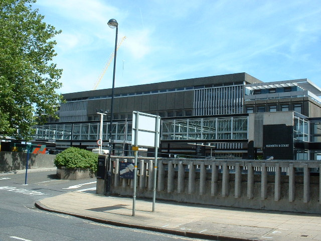 Hampshire County Council offices. Ashburton Court East, part of the Hampshire County Council office complex. This building is highly reminiscent of the "Brutalist" style, popular in the 1960s.